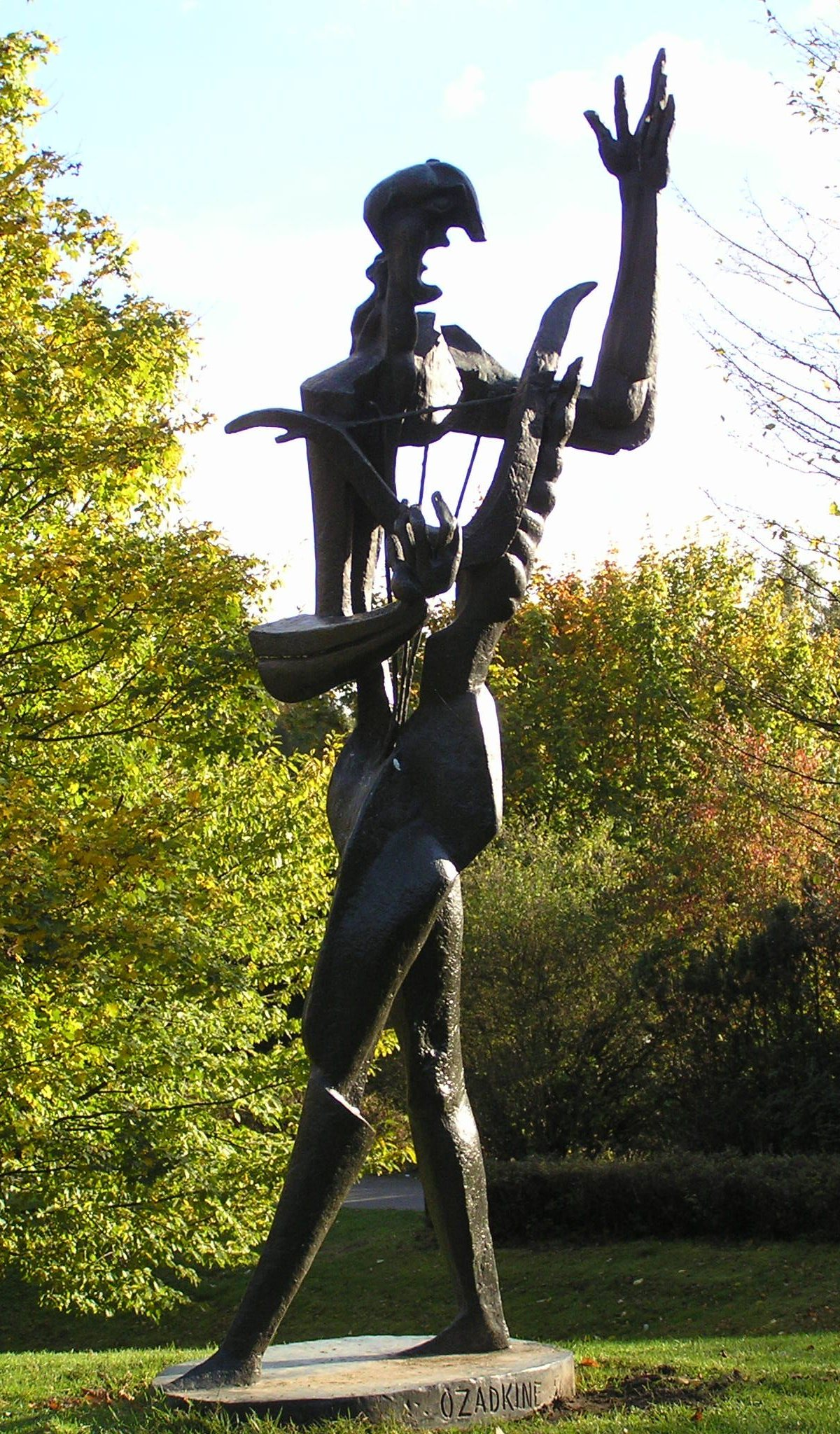 Scuplture "Großer Orpheus" (1956) by Ossip Zadkine (location: Sculpture Museum Park, Marl, Germany)